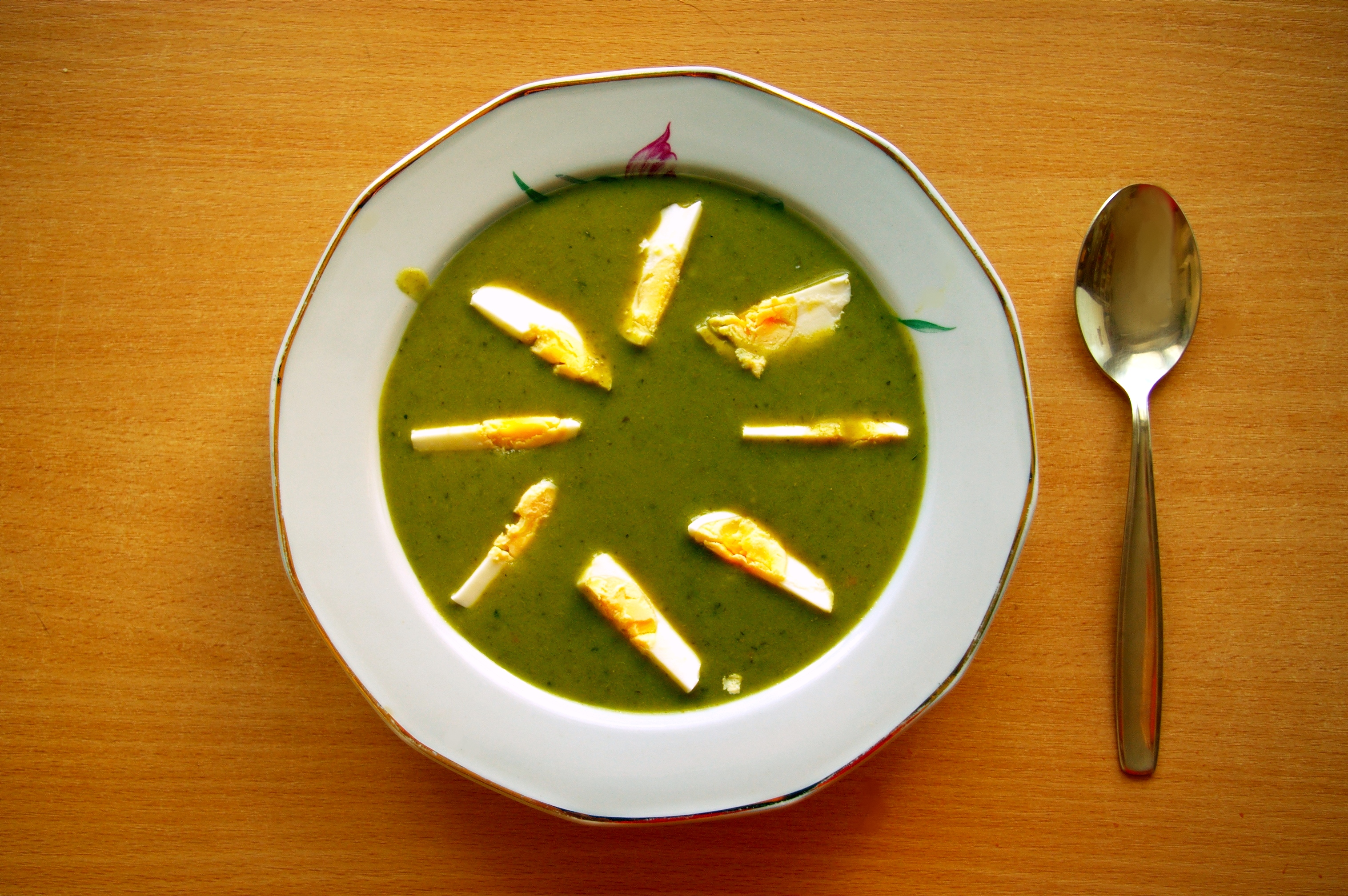 Sorrel soup with egg